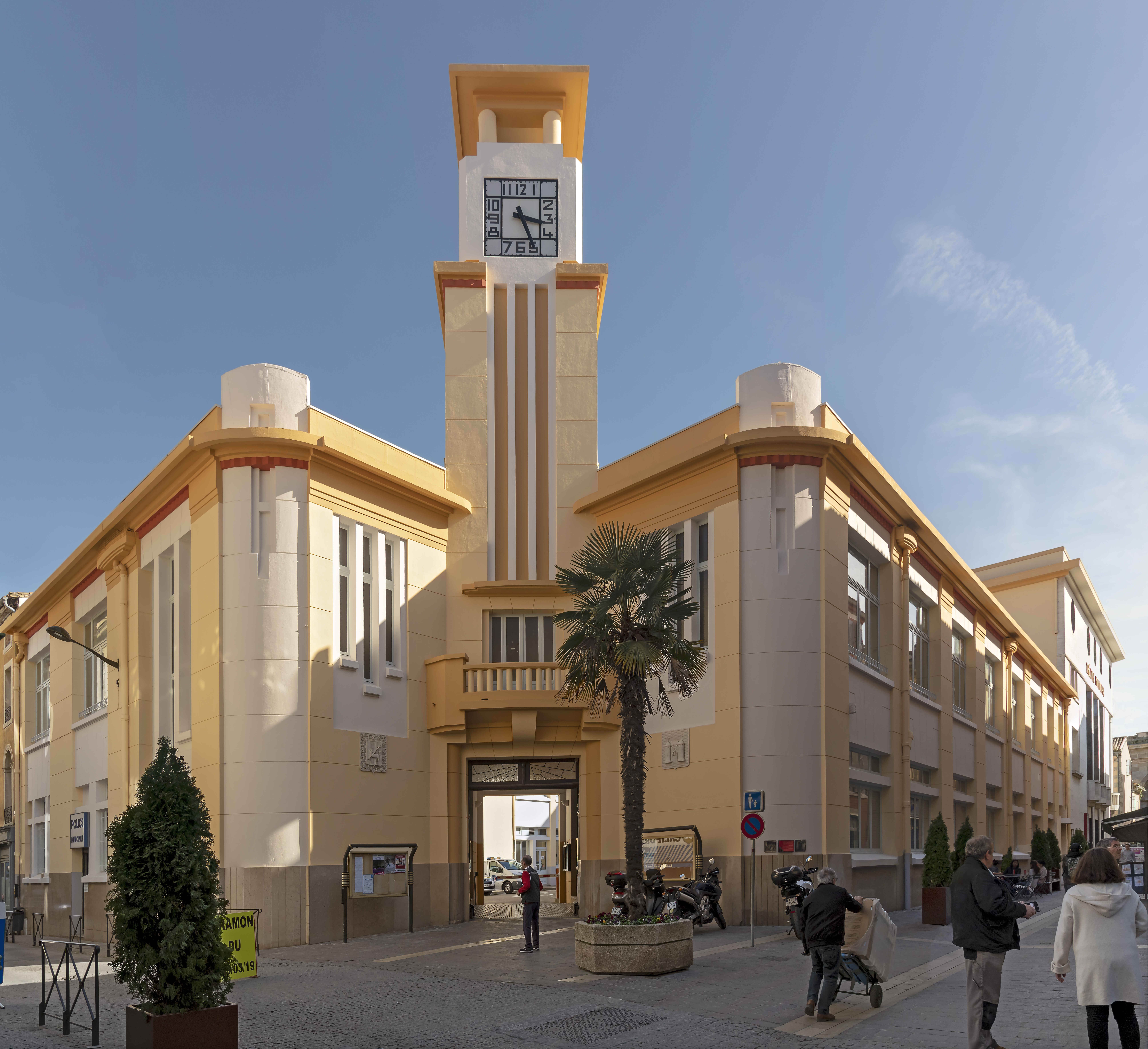 Art Deco building of the municipal police